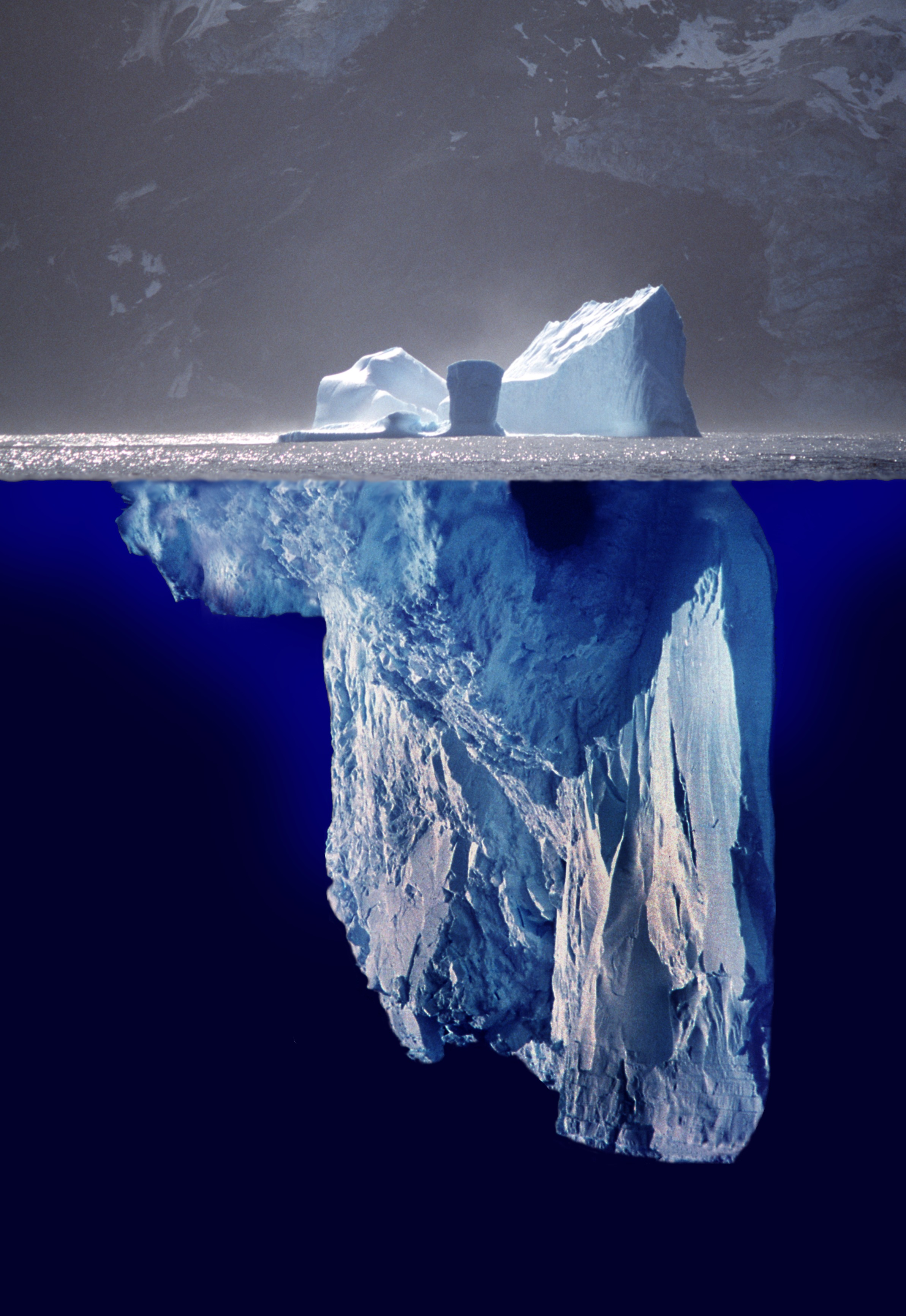 A photomontage of what a whole iceberg might look like. The upper part is a real image (Image:Iceberg-Antarctica.jpg). The part below the waterline is another iceberg image upside down. An older, cropped version of this image, Image:Wikisource-logo.jpg, was the Wikisource logo (current logo).